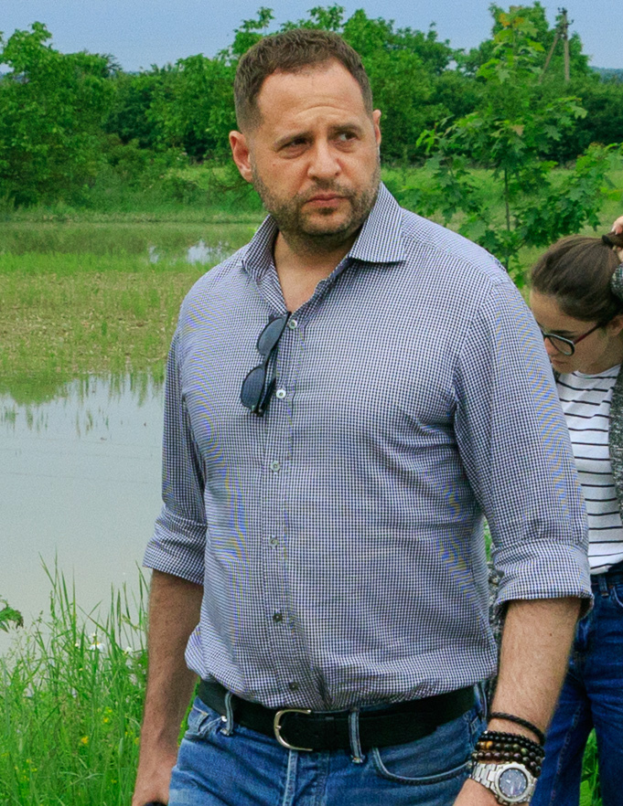 Андрій Єрмак помічник, Президента України Володимира Зеленського, у центрі, та в. о. голови Виноградівської районної державної адміністрації Наталія Костелеба-Веремчук, праворуч, оглядають підтоплені сільгоспугіддя під час робочої поїздки до Закарпатської області, в с. Великі Ком'яти (Закарпатська обл.), 27 травня 2019 р. Цього дня помічник Президента України Андрій Єрмак здійснив робочу поїздку до Закарпатської області, де ознайомився з наслідками руйнівного поводку, який розпочався 21 травня 2019 р.